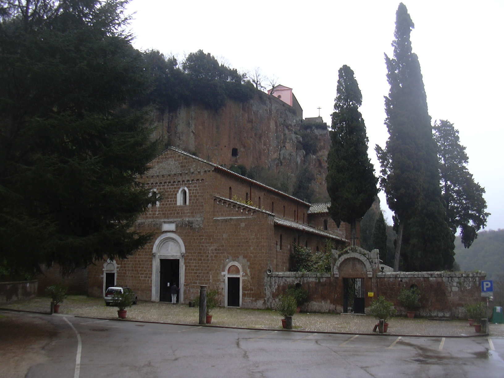 Castel Sant'Elia, Benedictine basilica (11th century)